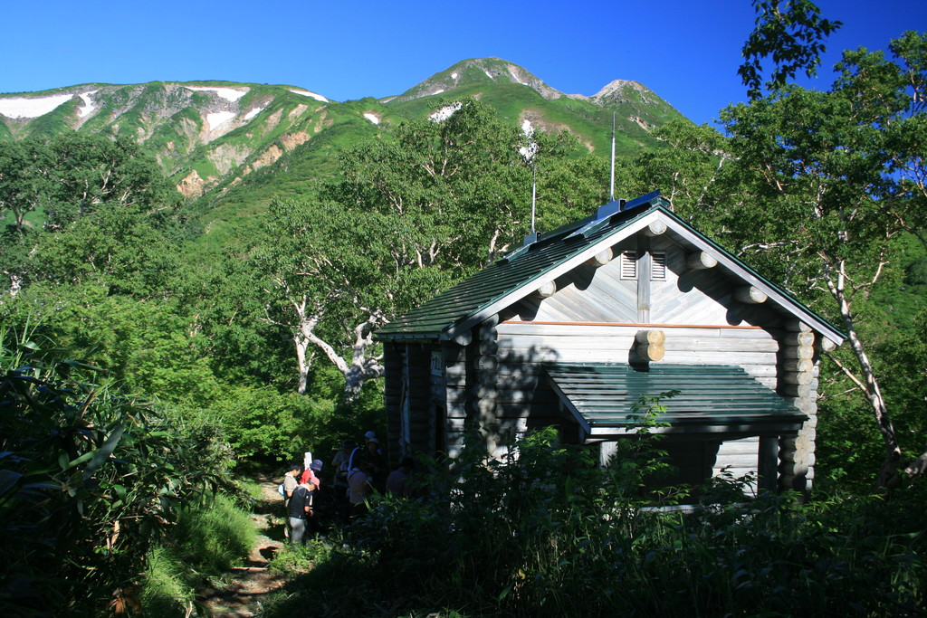 Mountain Huts Okurayama in Ryōhaku Mountains, Japan.